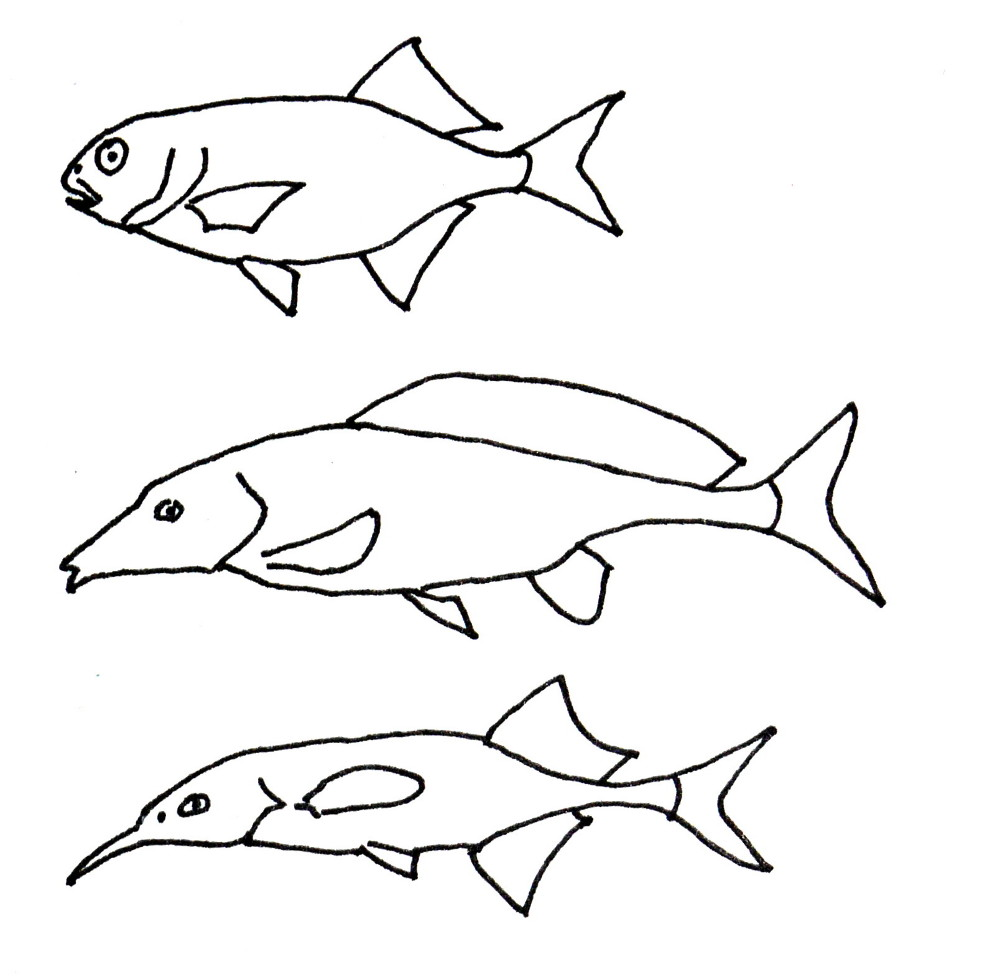 Marcusenius, Mormyrus, Gnathonemus